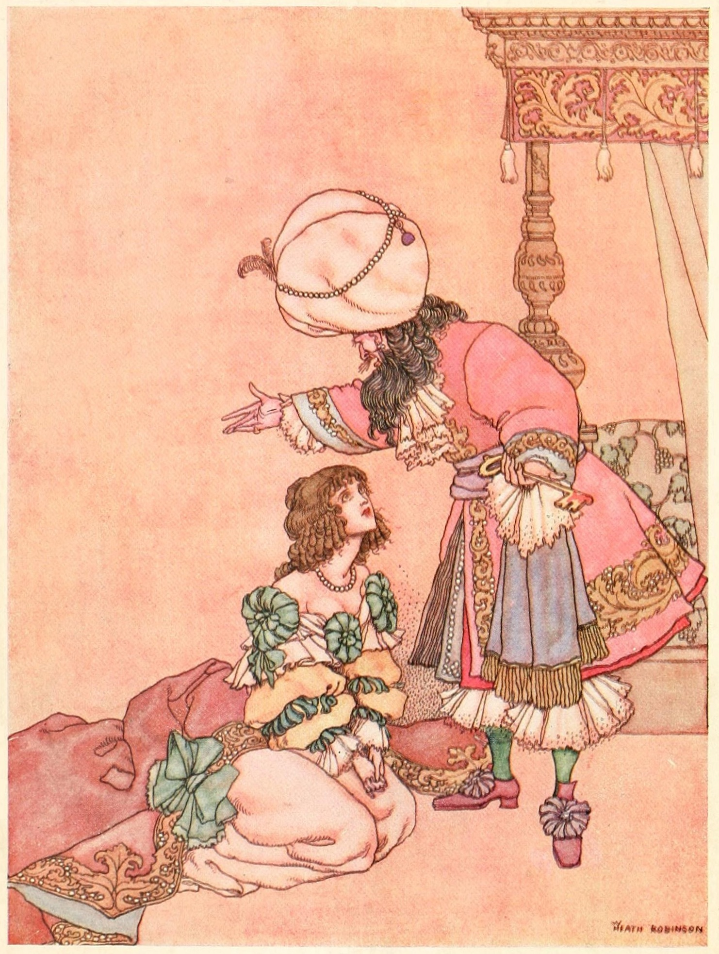 Illustration in Old-time stories (1921) New York: Dodd, Mead. Perrault, Charles, 1628-1703; Johnson, A. E. (Alfred Edwin), b. 1879; Robinson, W. Heath (William Heath), 1872-1944, ill